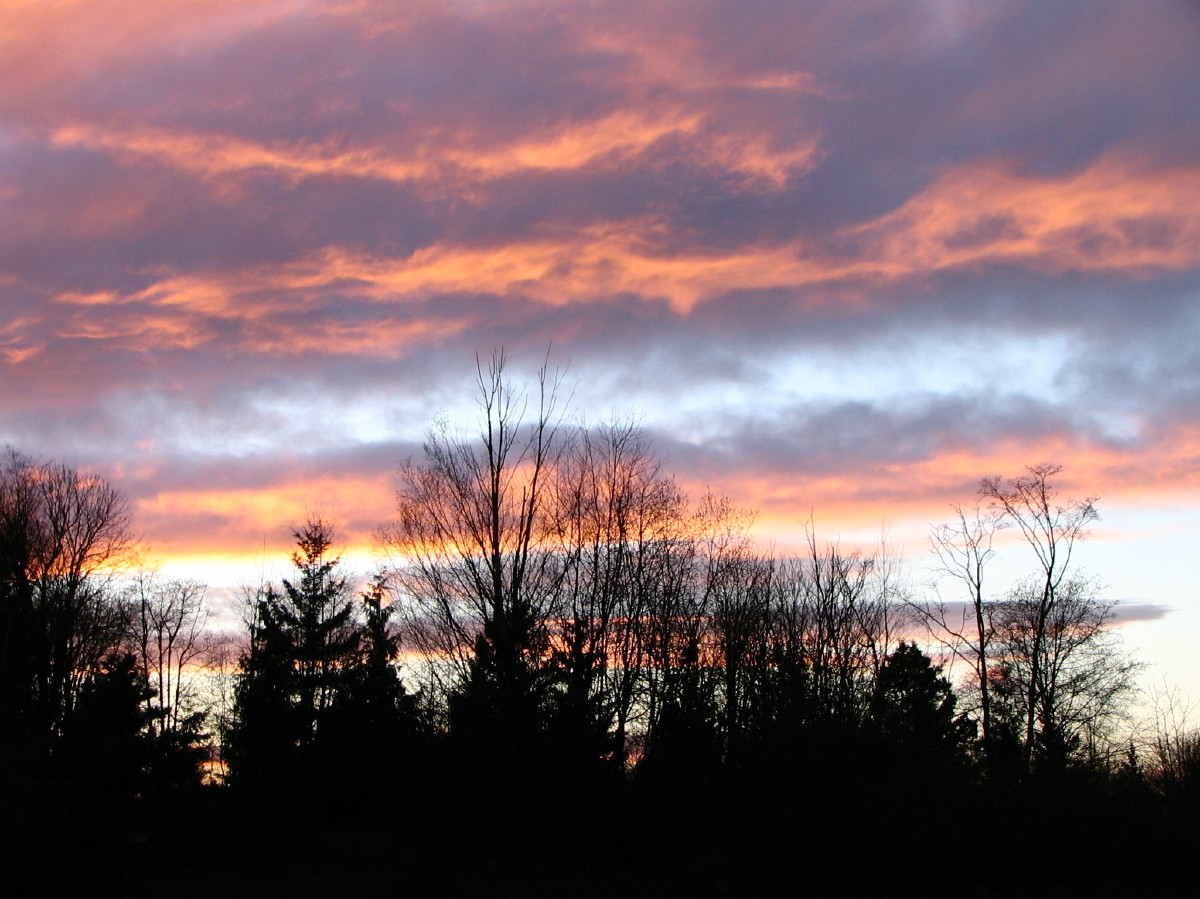 This image was created by me, Flying Penguin of Pacific Spirit Photography ( of Burnaby, BC, Canada